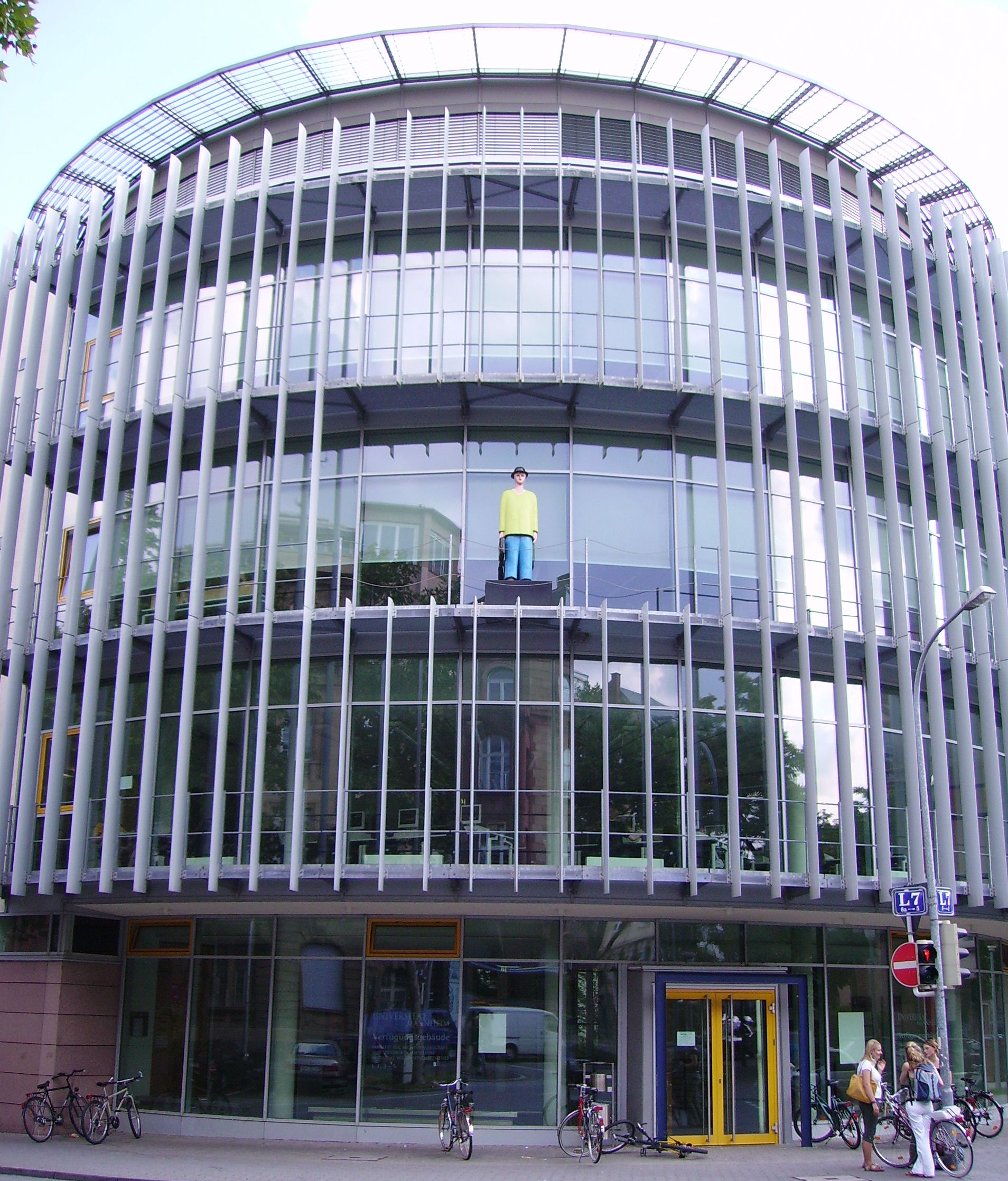 university institute in Mannheim, Germany